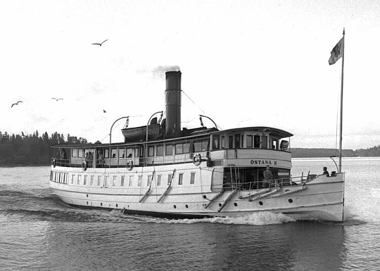 Swedish steam ship Östanå II under way.